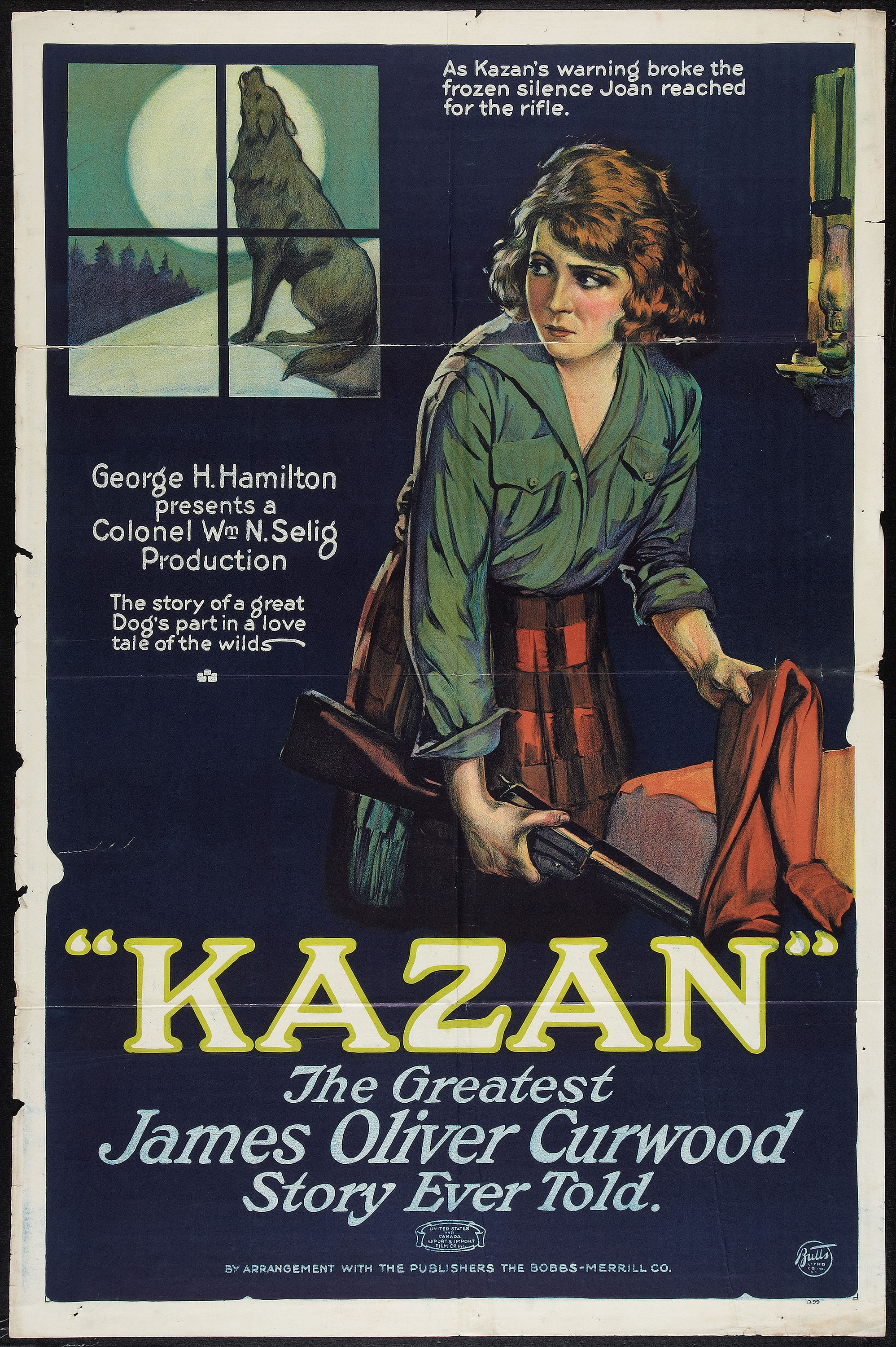 Film poster for the American film Kazan (1921) with Jane Novak.